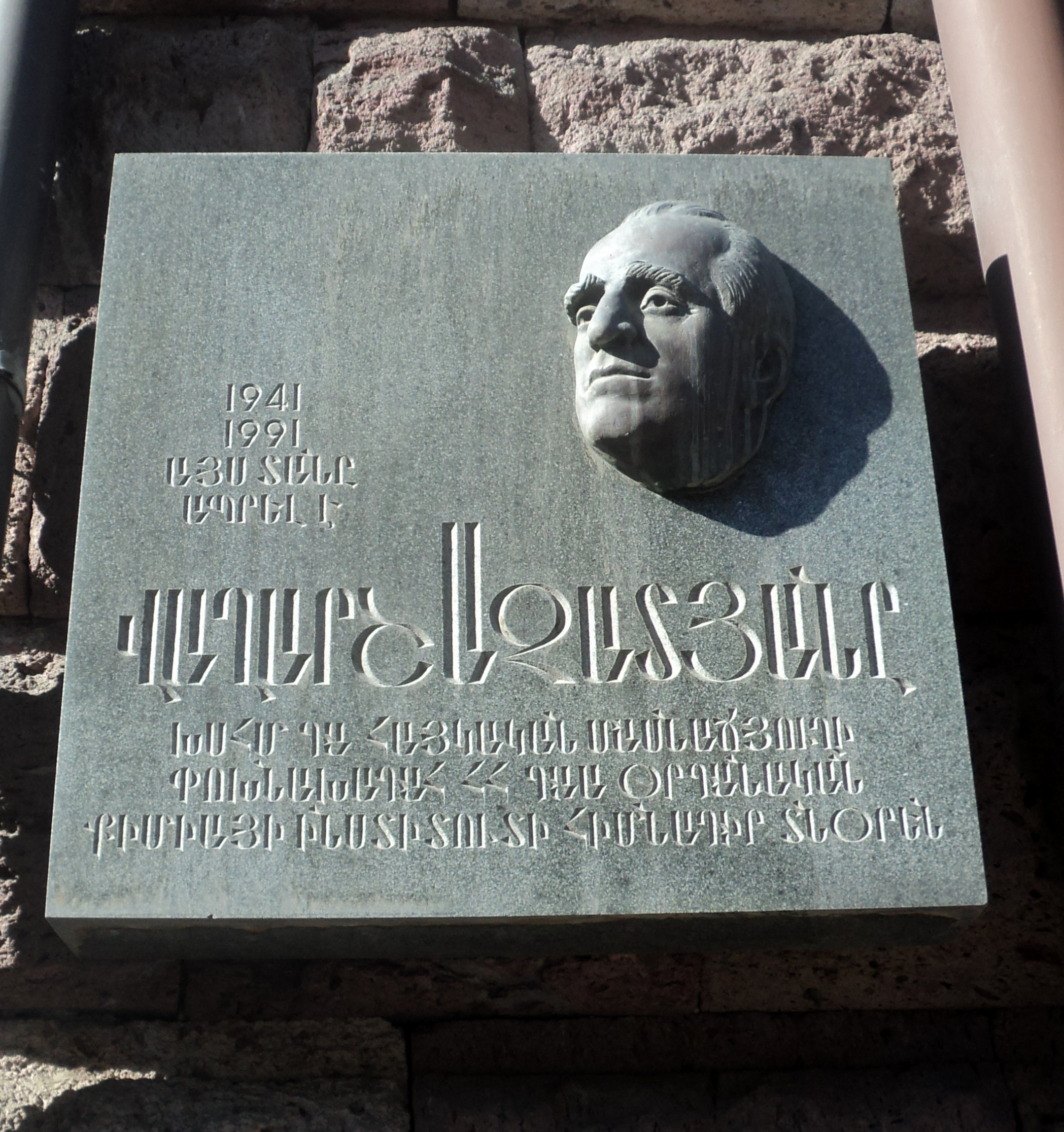 Vagharsh Azatyan's plaque